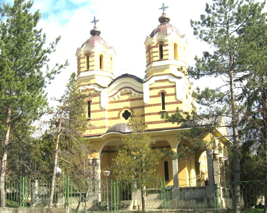 The new church of Popovo, Bulgaria.